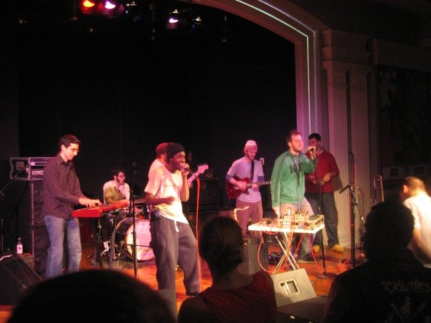 The Drastics performing in Urbana, Illinois in 2008